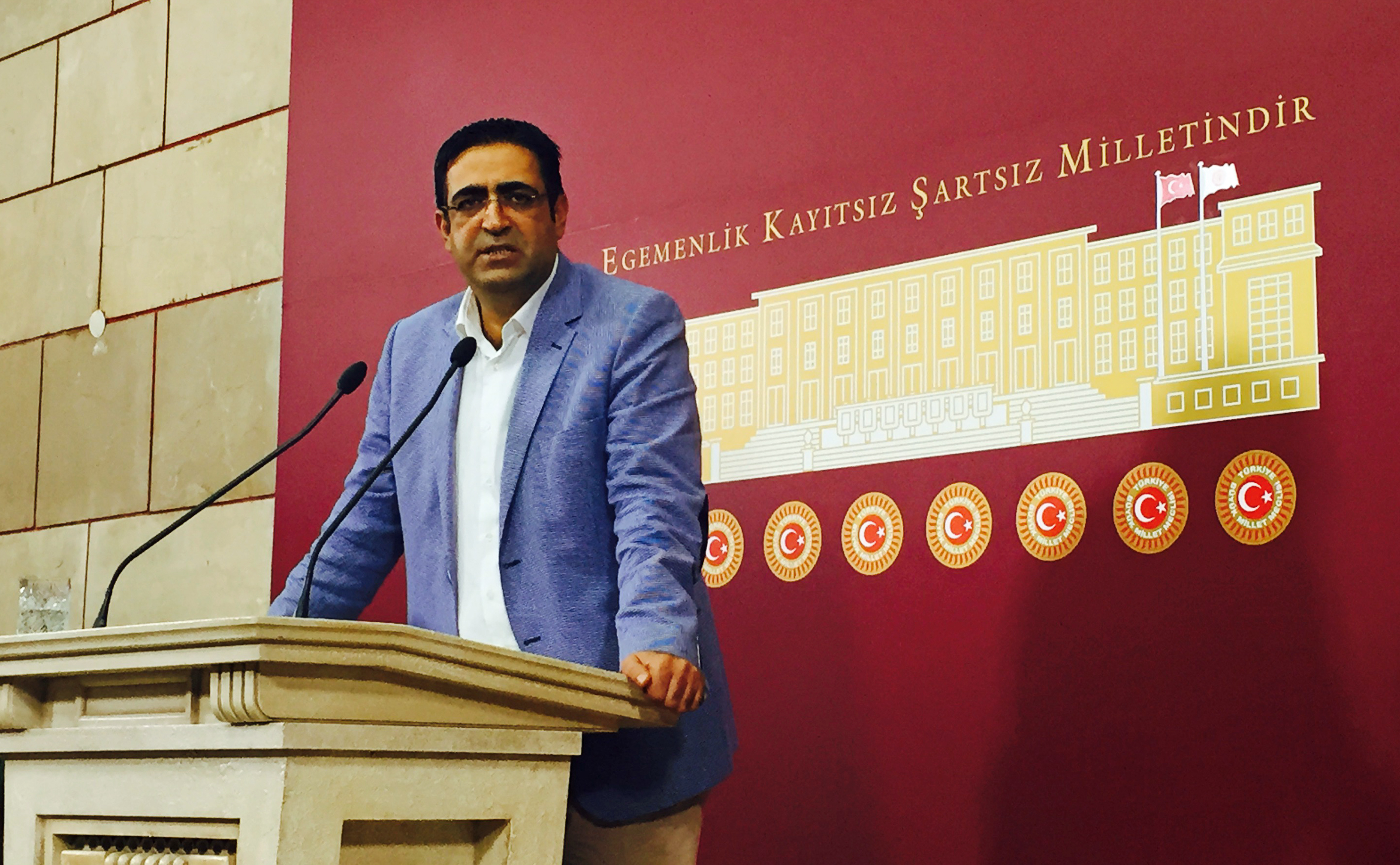 HDP MP İdris Baluken in 2015.